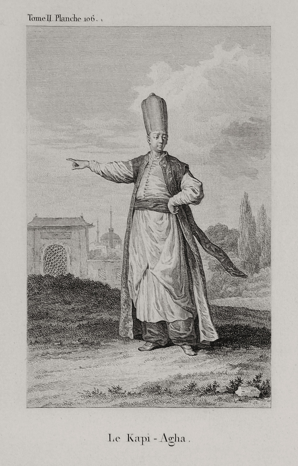 Marie-Gabriel-Florent-Auguste Comte de Choiseul-Gouffier. Voyage pittoresque de la Grèce. Paris, J.-J. Blaise M.DCCC.IX, (1782 1st volume, 1809 2nd volume, 1822 3rd volume, 1842 2nd edition)